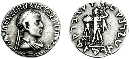 Coin of the Indo-Graeco king Polyxenos